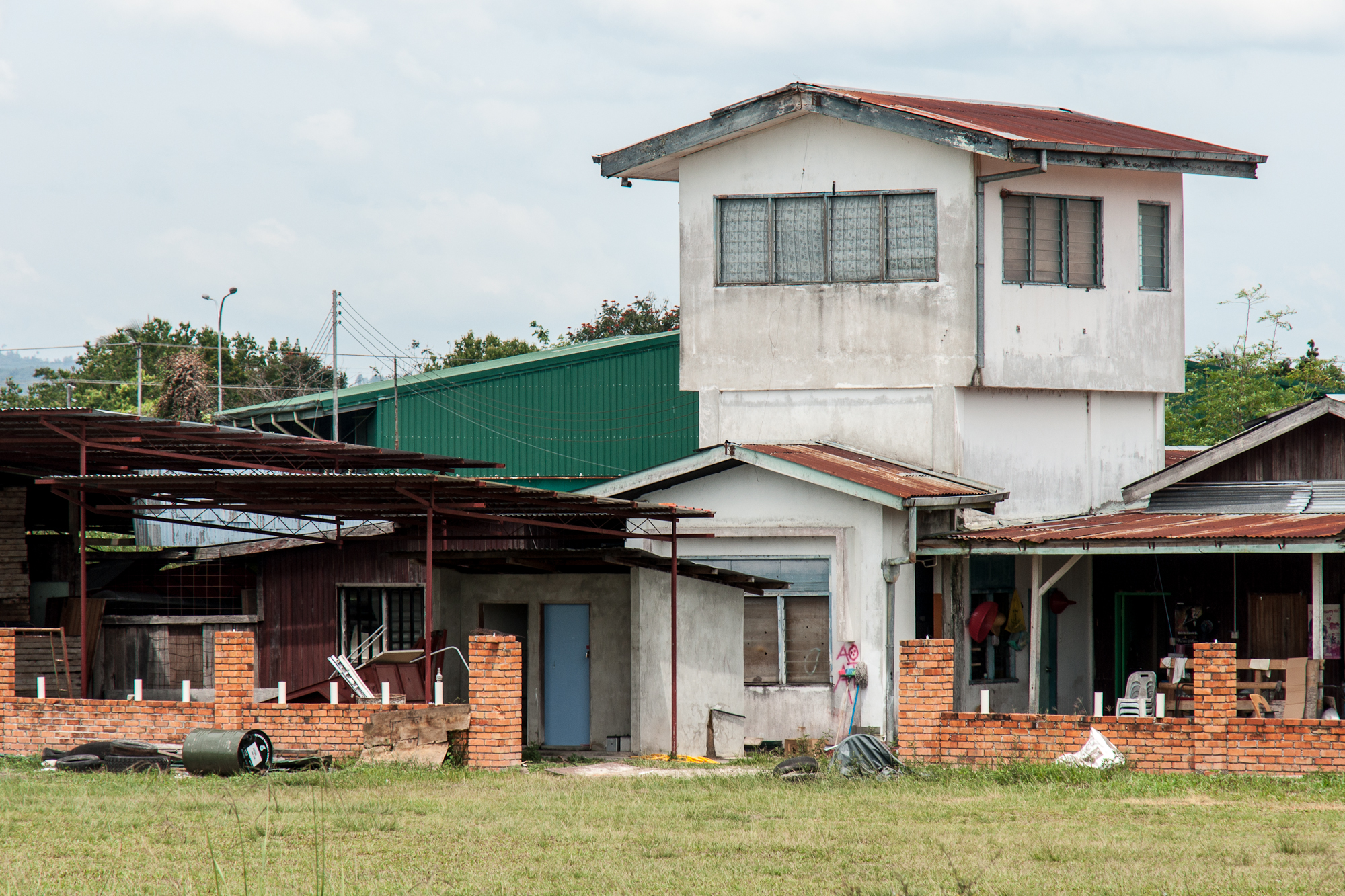 Airport Keningau, Sabah: Former Control Tower